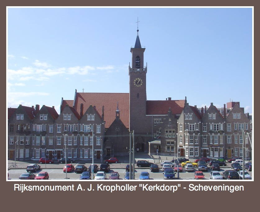 The beautiful "Kerkdorp" (church village) monument complex designed in 1913 by renowned Dutch architect, A.J. Kropholler. (1881-1973). Kropholler's complex, stands proudly next to the Circus Theater, in the heart of The Hague's international four season beach resort district of Scheveningen, The Hague, and is just steps from Holland's beachfront on the North Sea. The complex is comprised of 13 grand homes, the "Onze Lieve Vrouw van Lourdeskerk" and, perhaps what may be of the greatest interest, the Lourdeskapel (Lourdes Chapel) where a unique 1:13 scale replica the Lourdes Grotto in Massabielle (FR) awaits discovery.